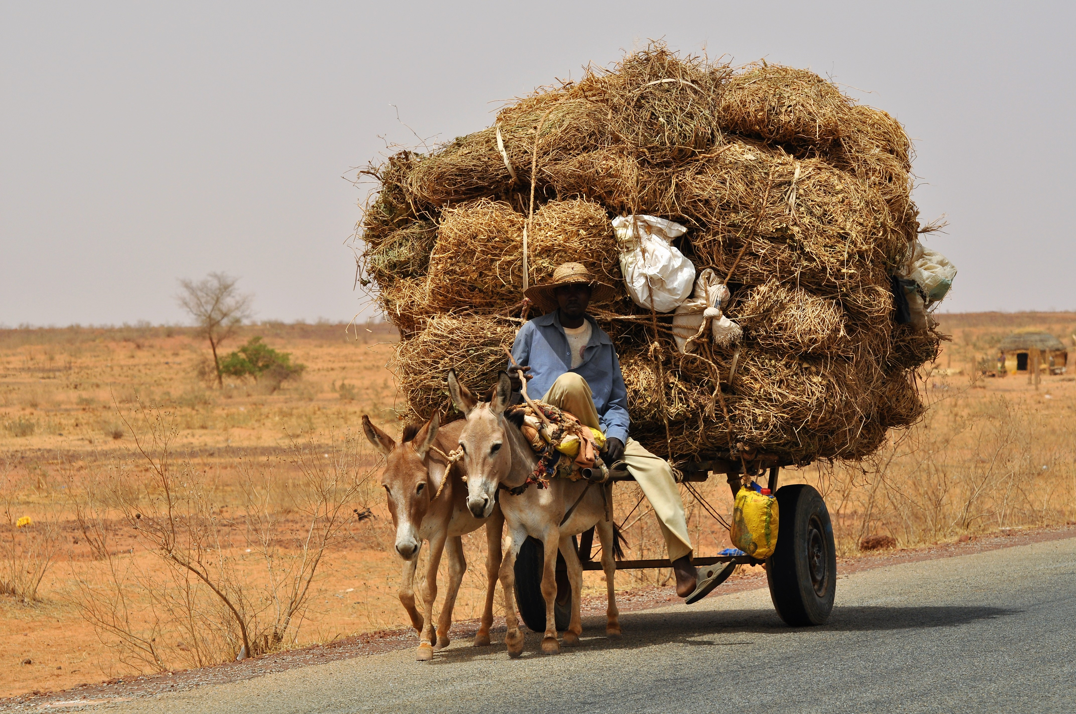 A donkey cart with hay in the commune of Liboré, on the National Road N25 from Niamey to Filingué, in Niger.